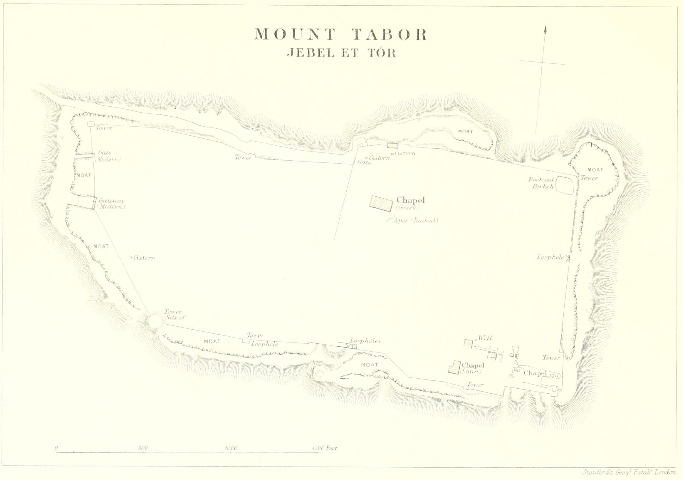 Mount Tabor from the 1871-77 Palestine Exploration Fund Survey of Palestine